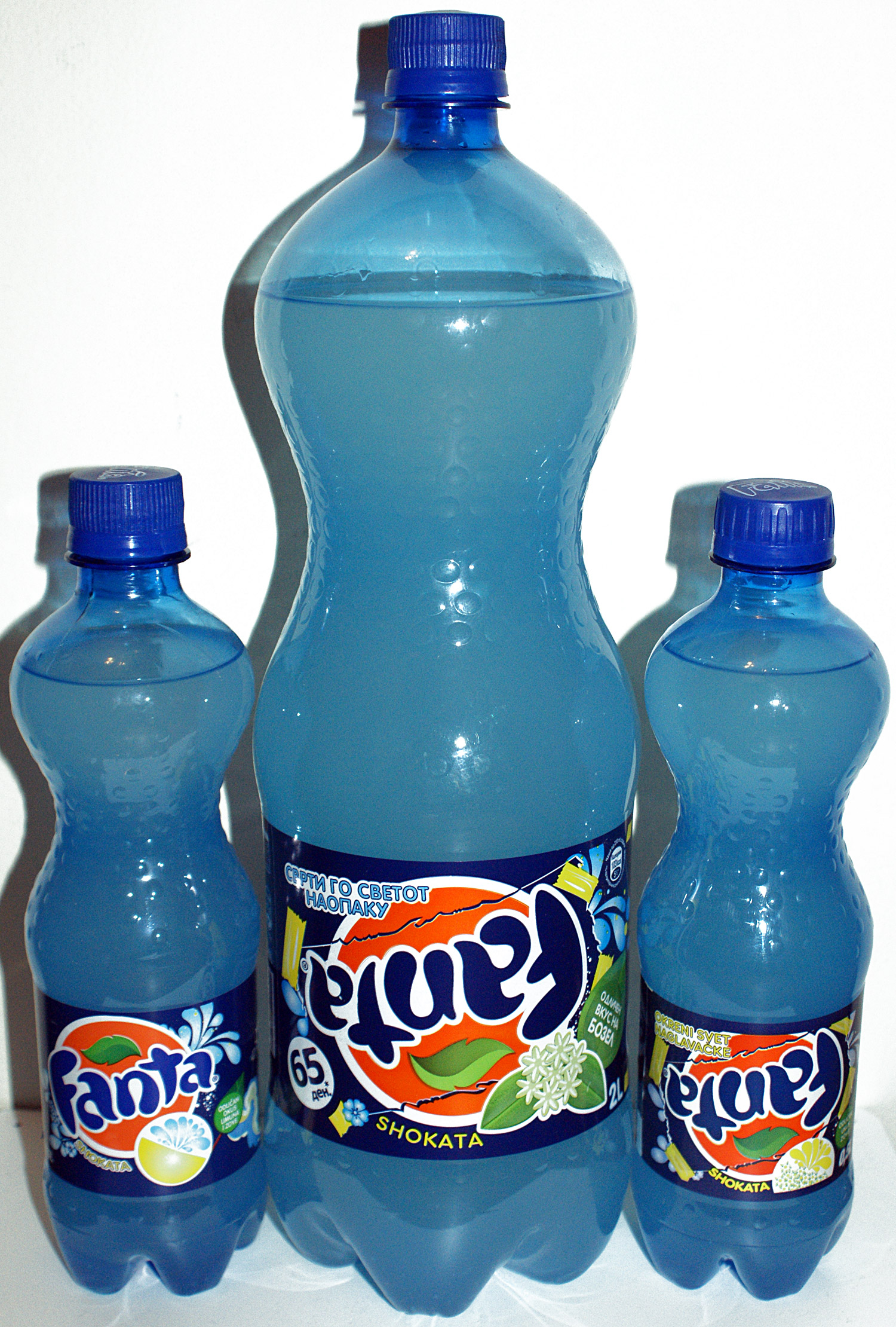 Photograph of Fanta Shokata bottles from Bosnia and Hercegovina, Macedonia and Serbia (from left to right). As of 2012, this flavor is available in 0.5 and 2 liter bottles in most of the Balkans, including Serbia, Montenegro, Macedonia, Bosnia and Hercegovina, Croatia and Slovenia.